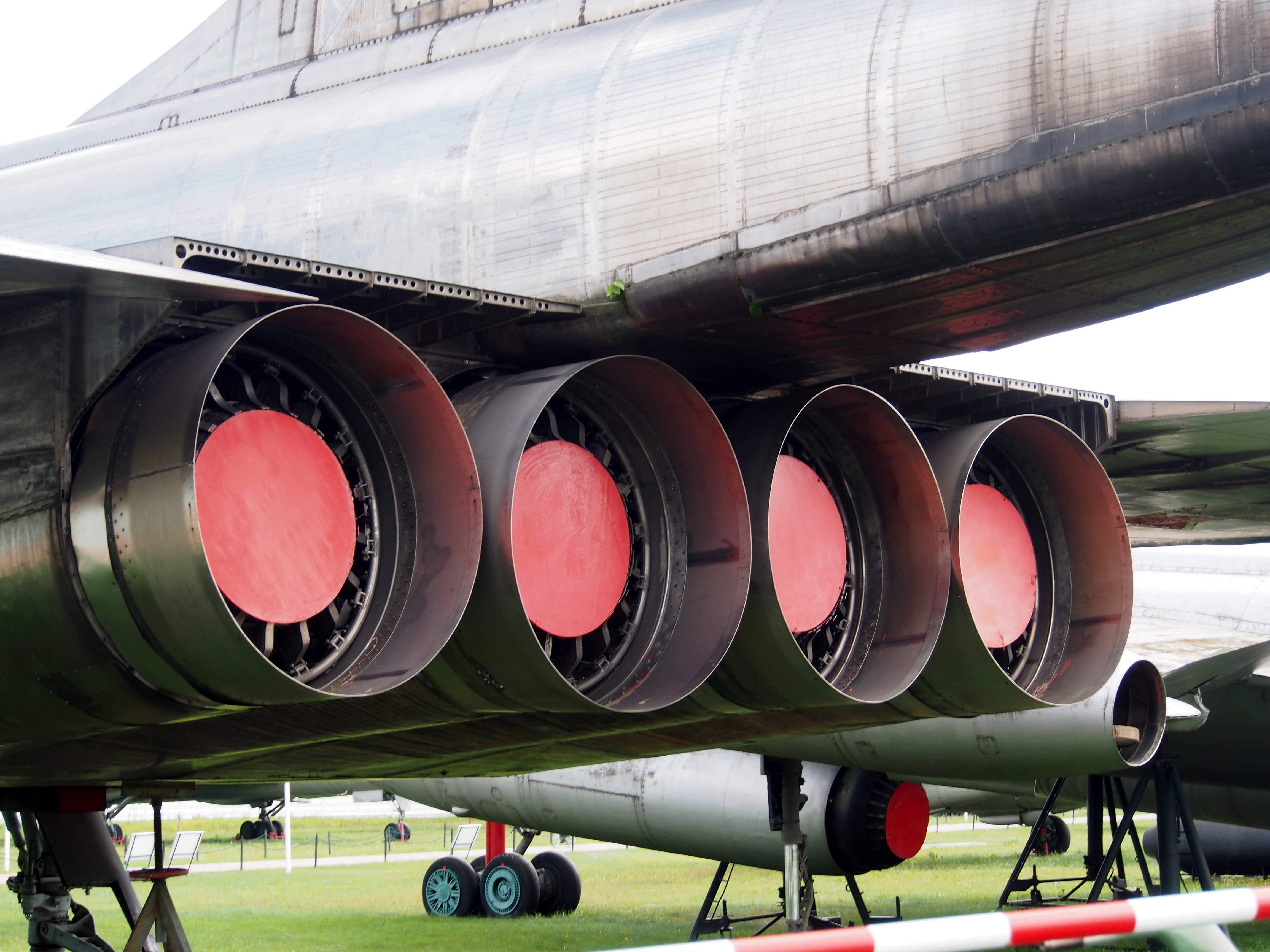 Photographed at the Central Air Force Museum, Monimo, Russia.